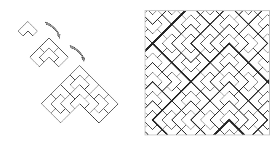 chair substitution tiling system